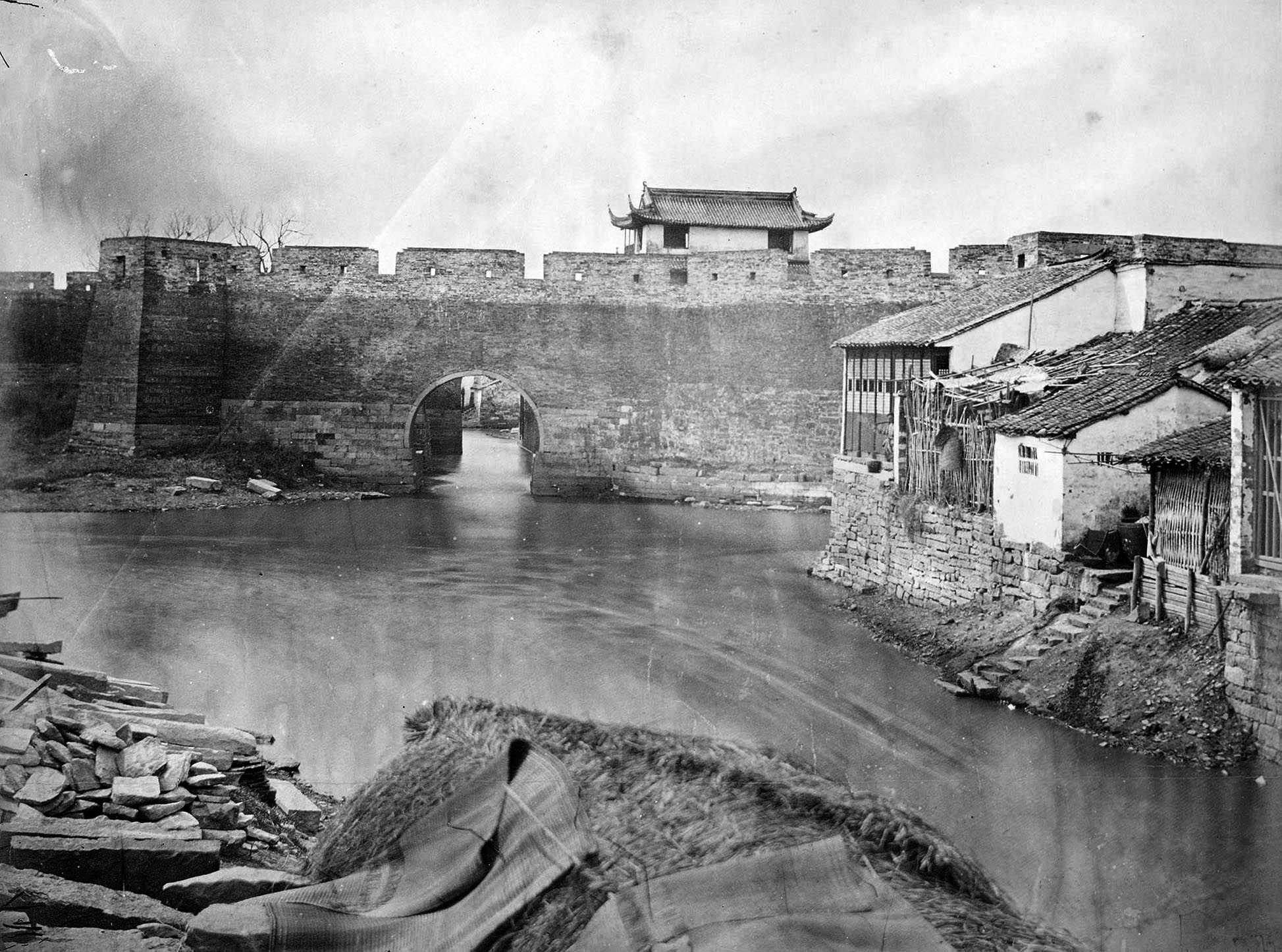 Photograph in Images related to Shanghai and other Chinese cities.